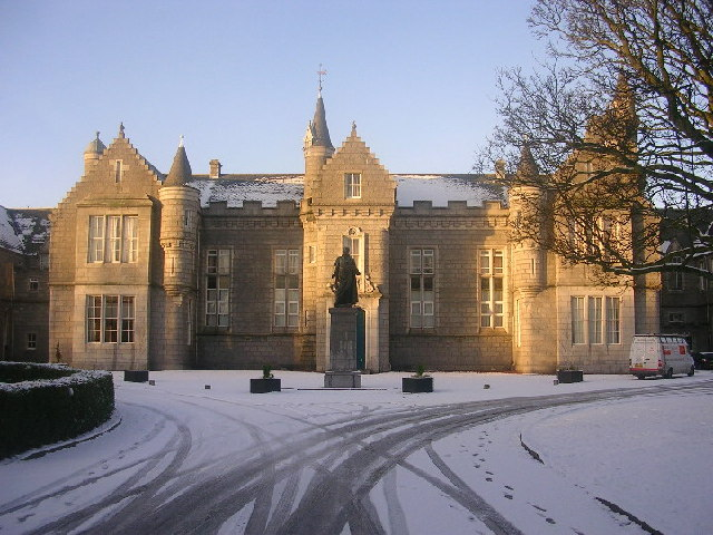 Aberdeen Grammar School. This building dates from the 1860s. It was rebuilt after being partially destroyed by fire in 1986.